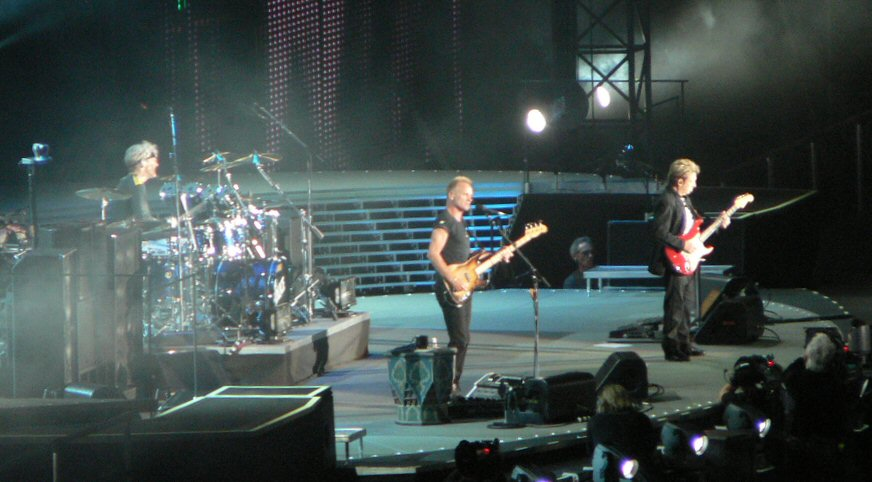 The Police (Copeland, Sting, Summers) @ Los Angeles 2007